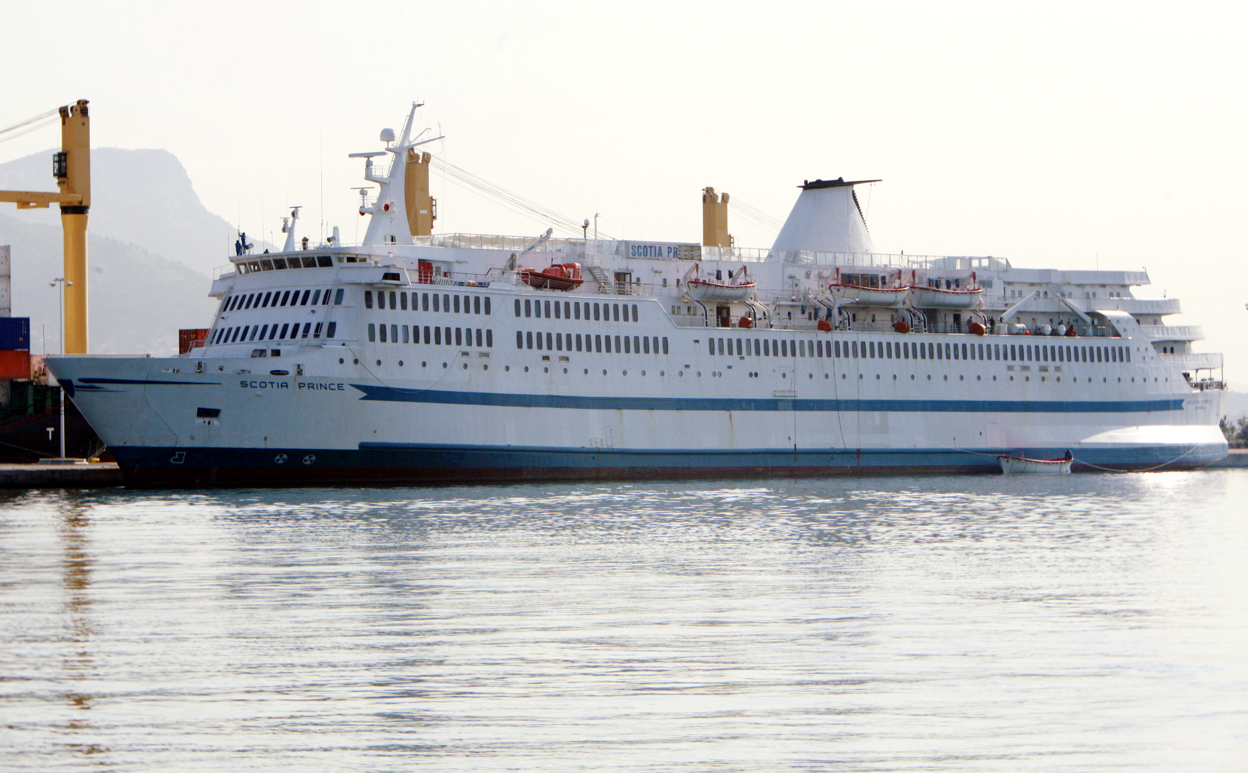 MS Scotia Prince in Toulon harbour.